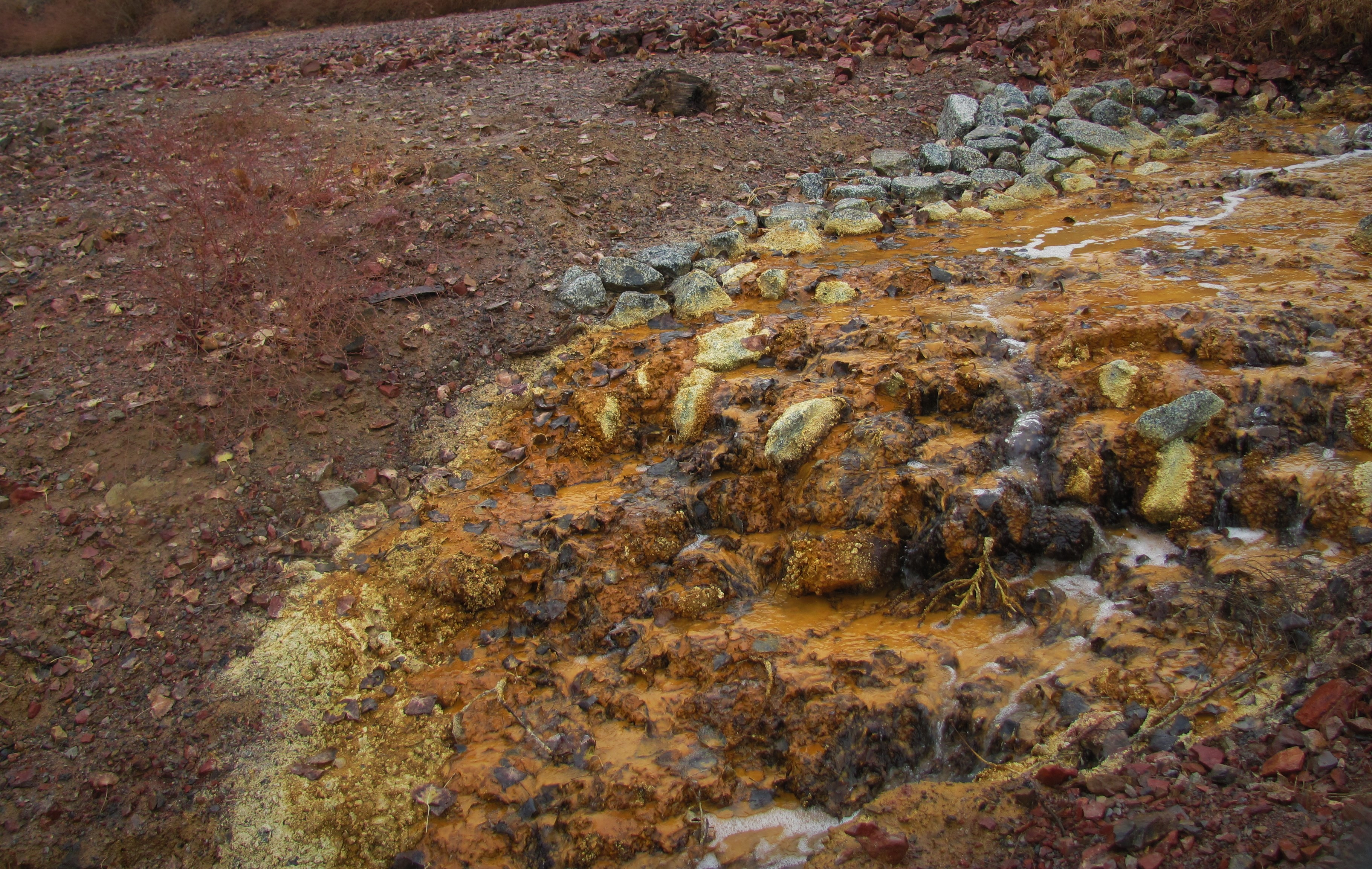 When the Company (LLC) Left New Idria in 1972 here is the poison left, this picture was taken in 2013. This is the water coming from the mine, the water is full of Mercury